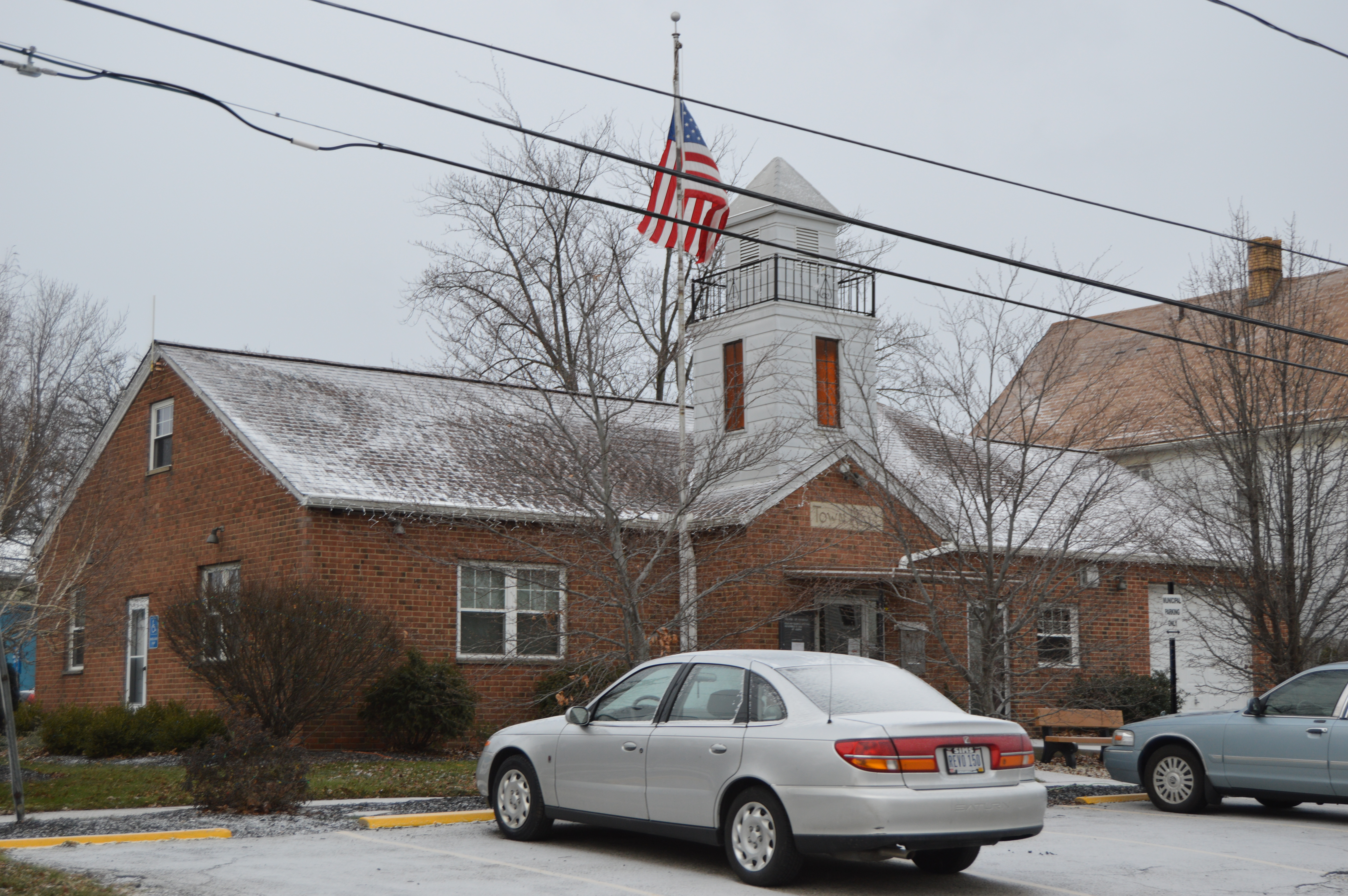 Front of Village Hall in Linndale, Ohio, United States, located on 119th Street.